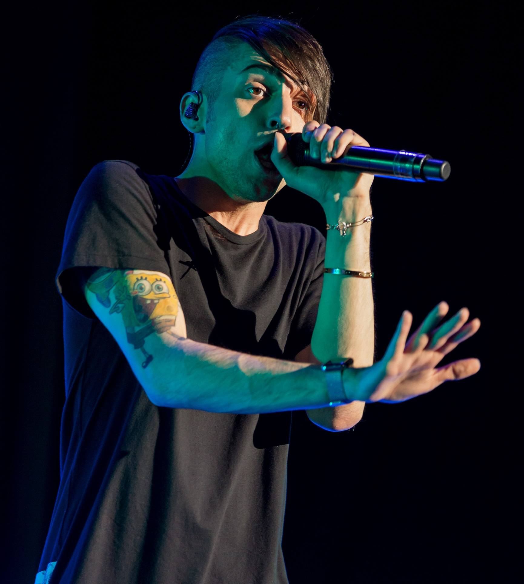 Mitch Grassi performing with Pentatonix performing at the Austin360 Amphitheater in Austin, Texas on August 29, 2015.